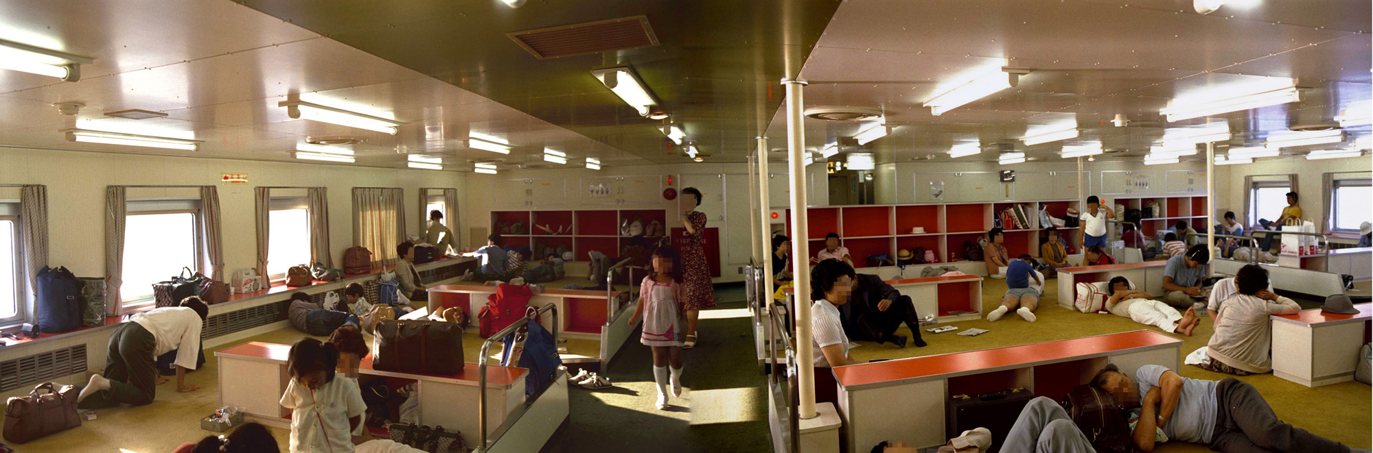 MS HIYAMA MARU2 Stern side Ordinary carpet cabin through the both side.